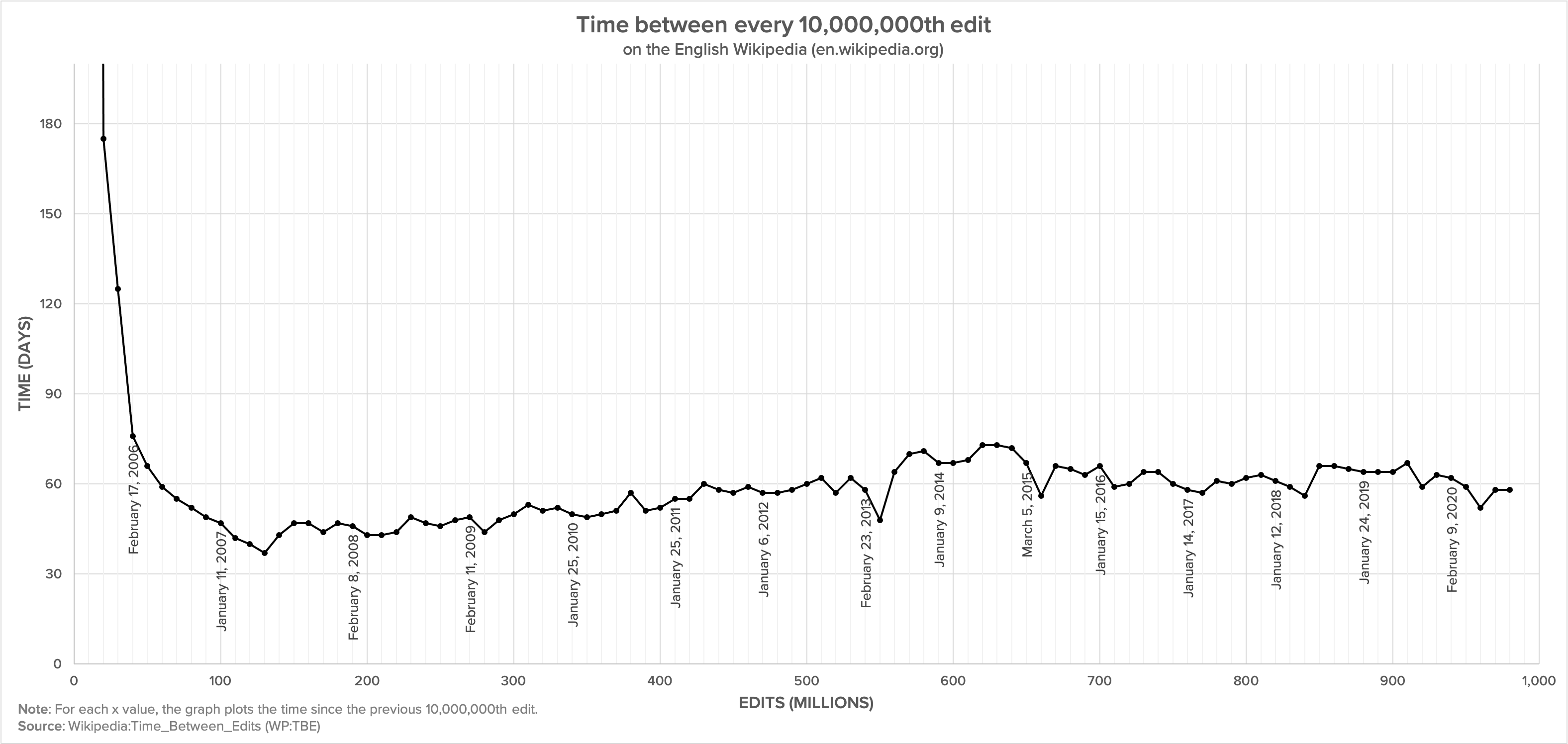 Graph of source data located at User:Katalaveno/TBE